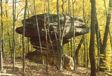 Devils Tea Table, Athens County, Ohio In King's Hollow, Waterloo Township; photo taken by John Knouse